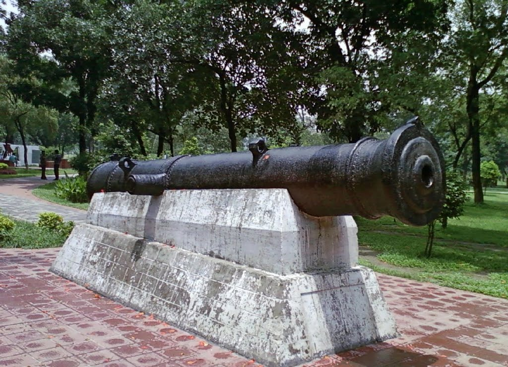 Bibi Mariam Cannon on display at a public park (Osmani Udyan) in Dhaka, Bangladesh